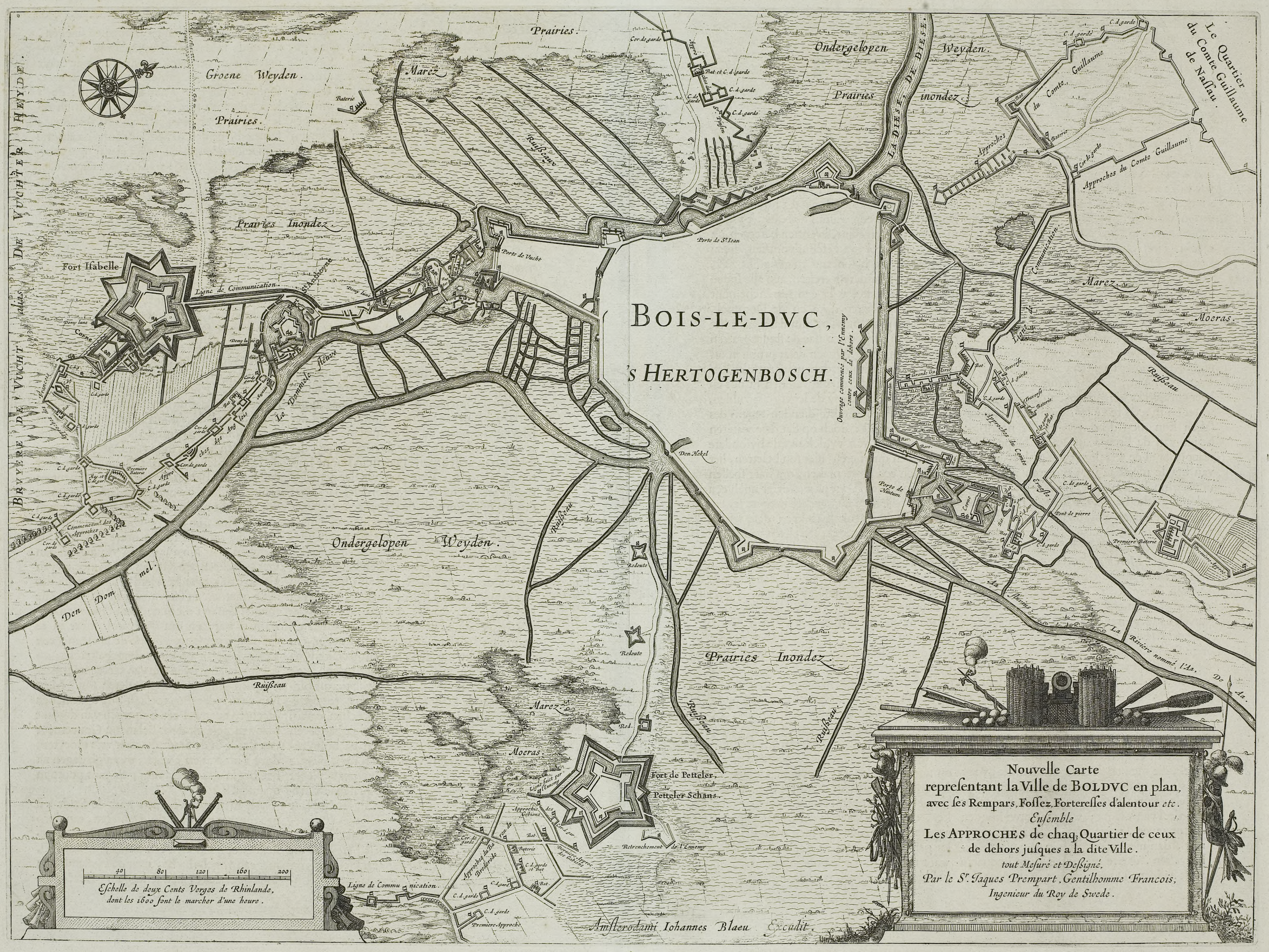 Siege of 's-Hertogenbosch by Frederik Hendrik. Clearly visible are the trenches towards the city defenses and fortresses, 1629. Fort Isabelle, Fort St. Anthoine, Petteler Schans.